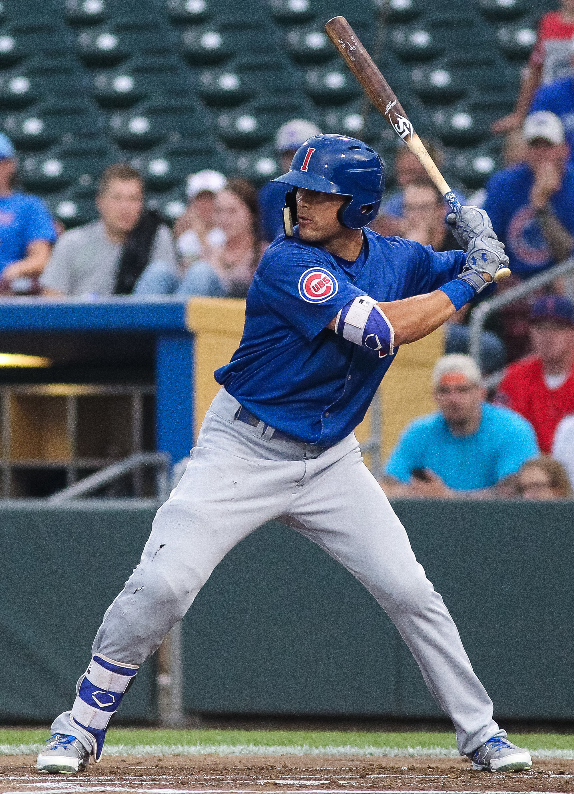 Jacob Hannemann bats for the Iowa Cubs during a 2017 game at Werner Park in Nebraska.